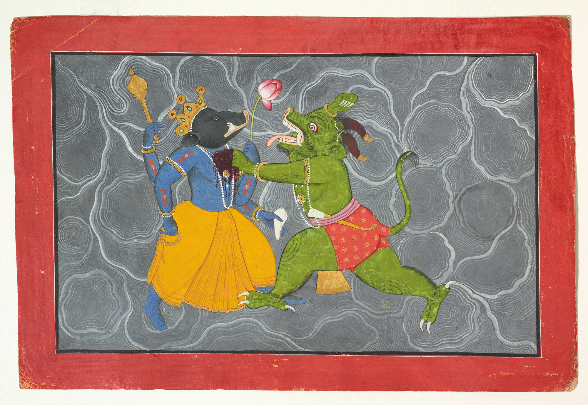 Varaha and Hiranyaksha: Folio from a Bhagavata Purana Series Attributed to Manaku (active ca. 1725–60) Date: ca. 1740 Culture: India (Guler, Himachal Pradesh) Medium: Opaque watercolor on paper Dimensions: Overall: 8 11/16 x 12 13/16 in. (22 x 32.5 cm) Classification: Painting Credit Line: Lent by Museum Rietberg Zürich, Gift of Balthasar and Nanni Reinhart Accession Number: SL.17.2011.38.20 Rights and Reproduction: Museum Rietberg Zürich, Gift of Balthasar and Nanni Reinhart